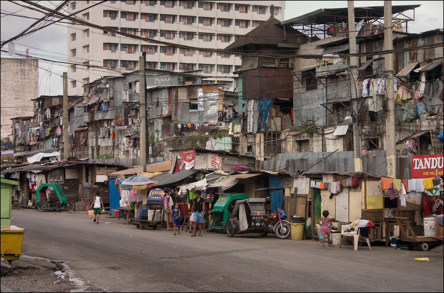 The part of the Manila city, Philippines.